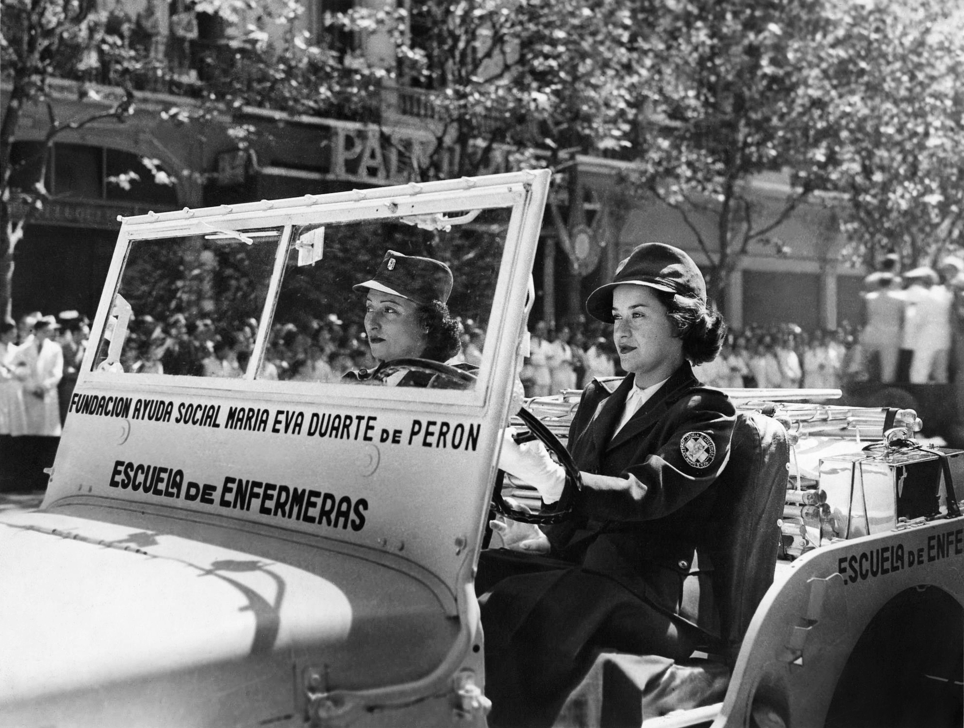 Nursery of Fundación Eva Perón in a parade